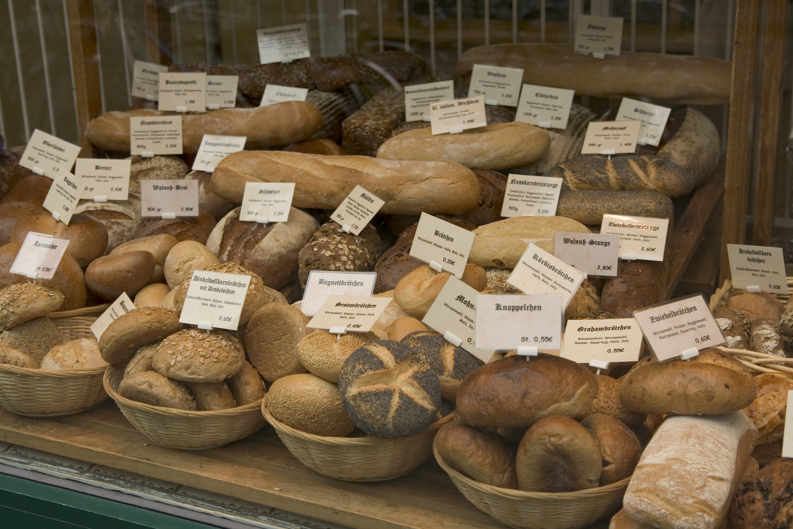 Selection of bread in German bakery